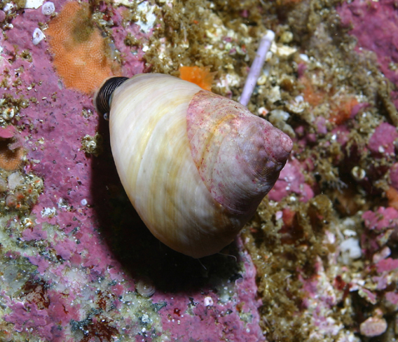 The dusky turban snail (Tegula pulligo) is usually on kelp; once it falls to the bottom, it is easy prey for a number of predators, including sea stars, whelks, and octopus.